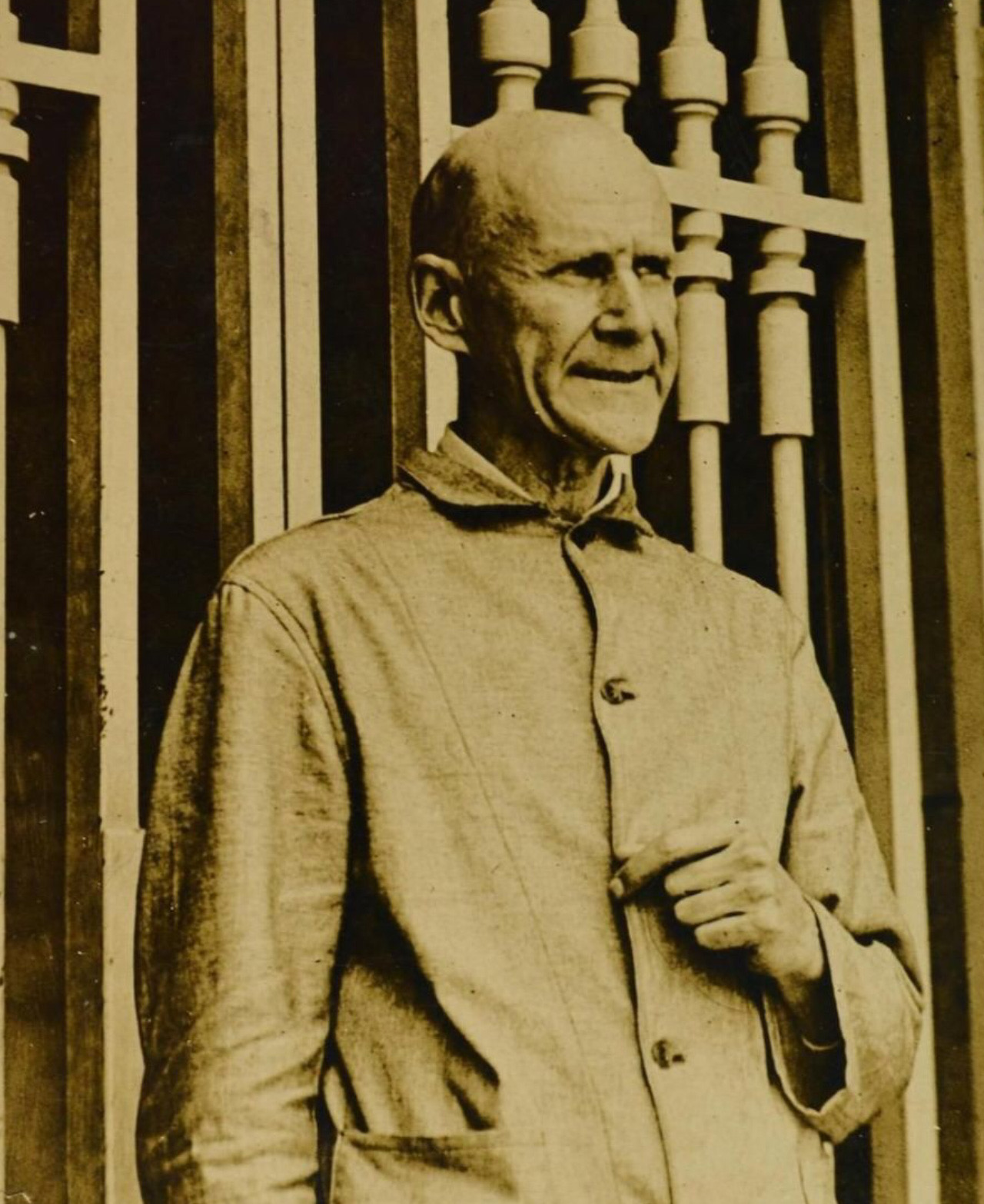 Debs while in prison at the Atlanta Federal Penitentiary for opposing WWI. Image also used for 1920 presidential campaign button.